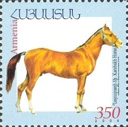 Stamp of Armenia, Karabagh Horse